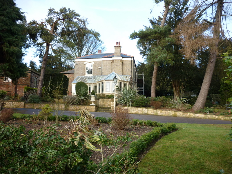 The Old Rectory near Hawerby Hall. This rectory was probably built in 1847 to designs by the Lincoln architects Bellamy and Hardy